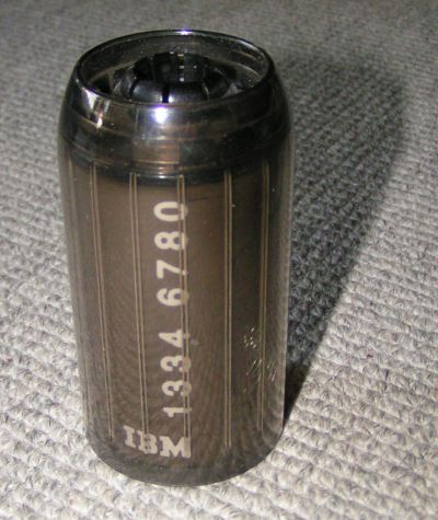 In the early eighties I had the pleasure of being an administrator of an IBM 3850 Mass Storage Subsystem. The cartridge on the picture was ejected by the system in 1982 and I'm still using it as a paperweight.